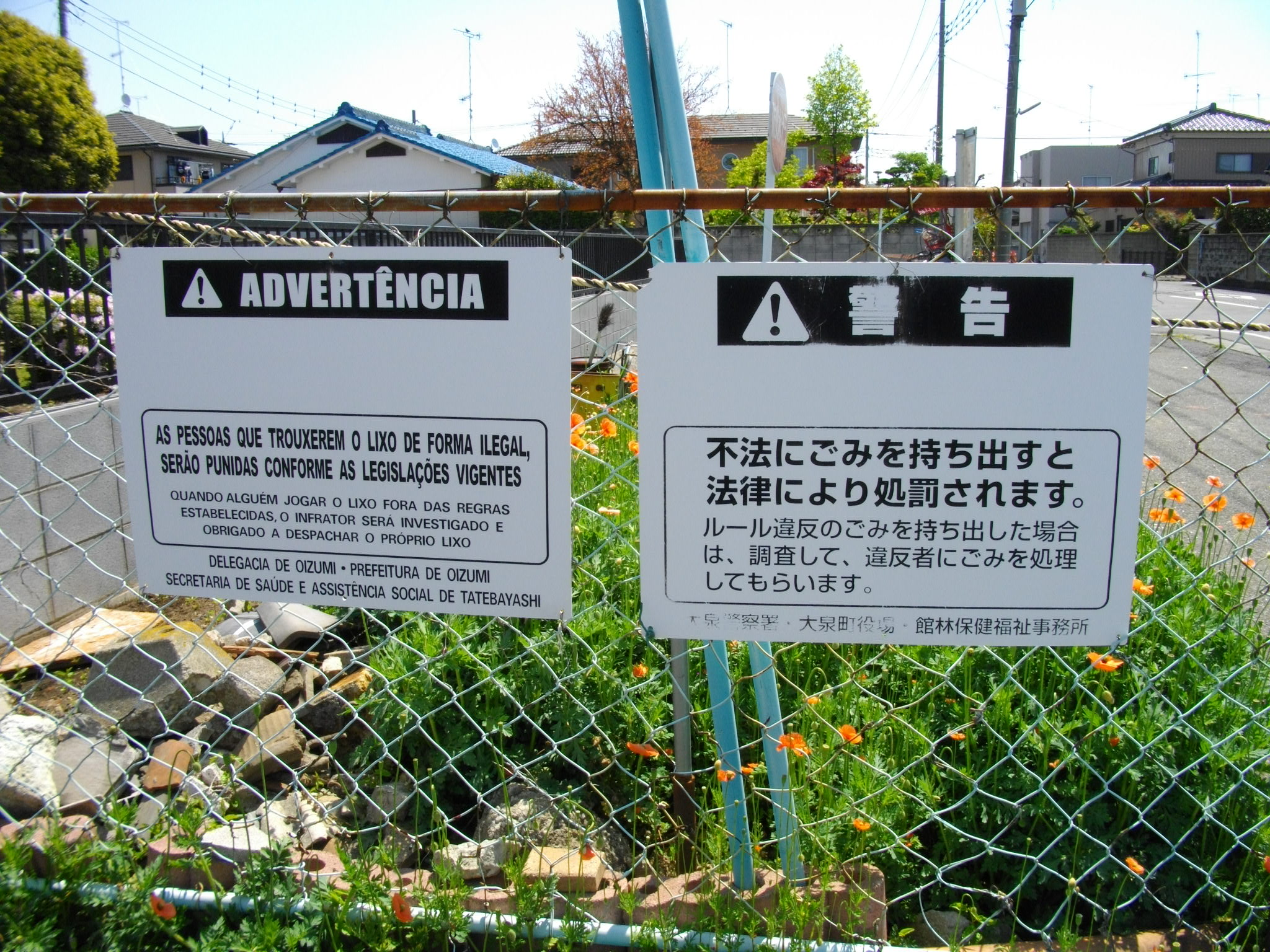 Bilingual(Japanese and Portuguese languages) Warning Signs in Oizumi, Gunma